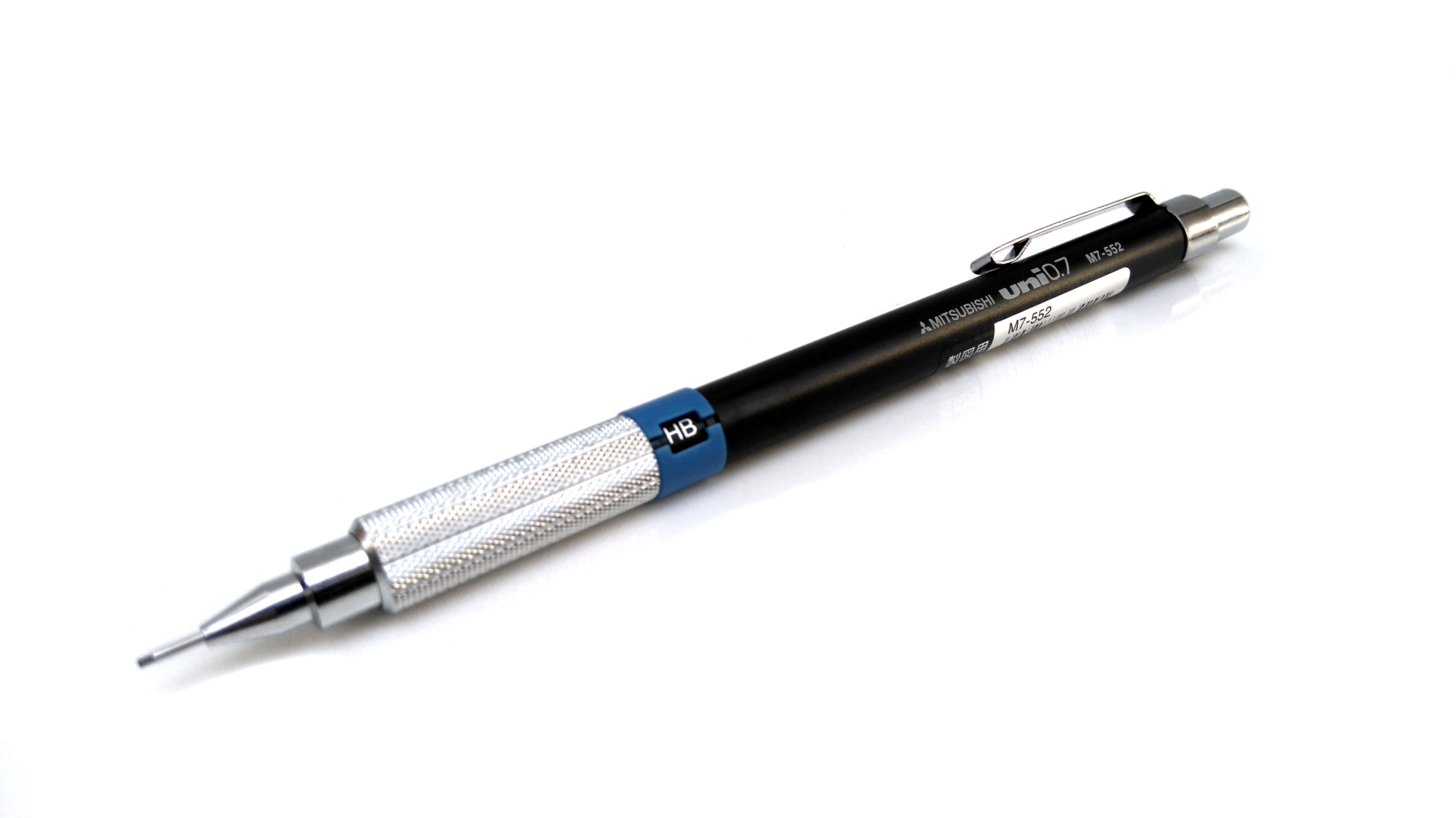 Uni M7-552 0.7 Black